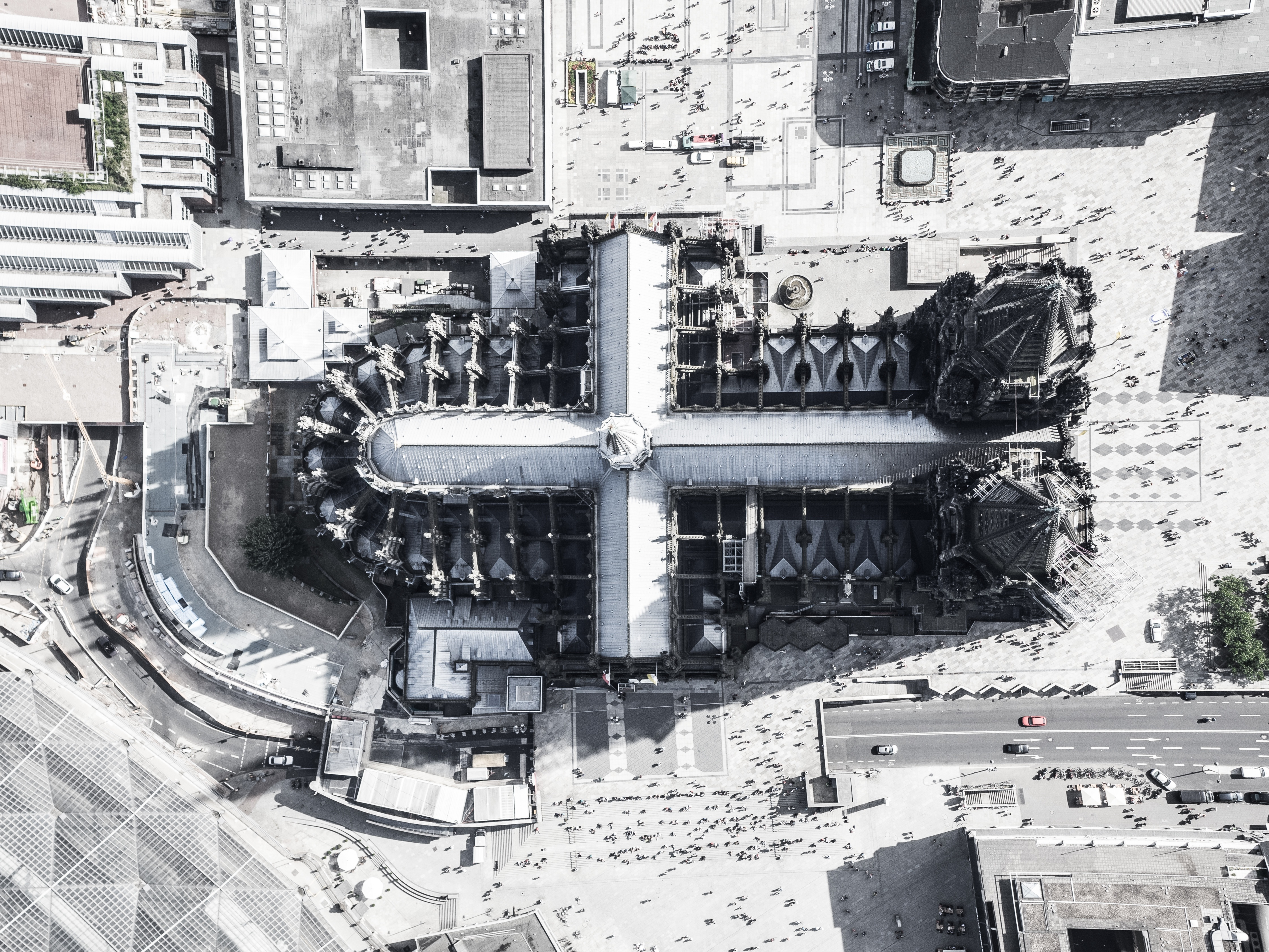 This is aerial view of Cologne Cathedral